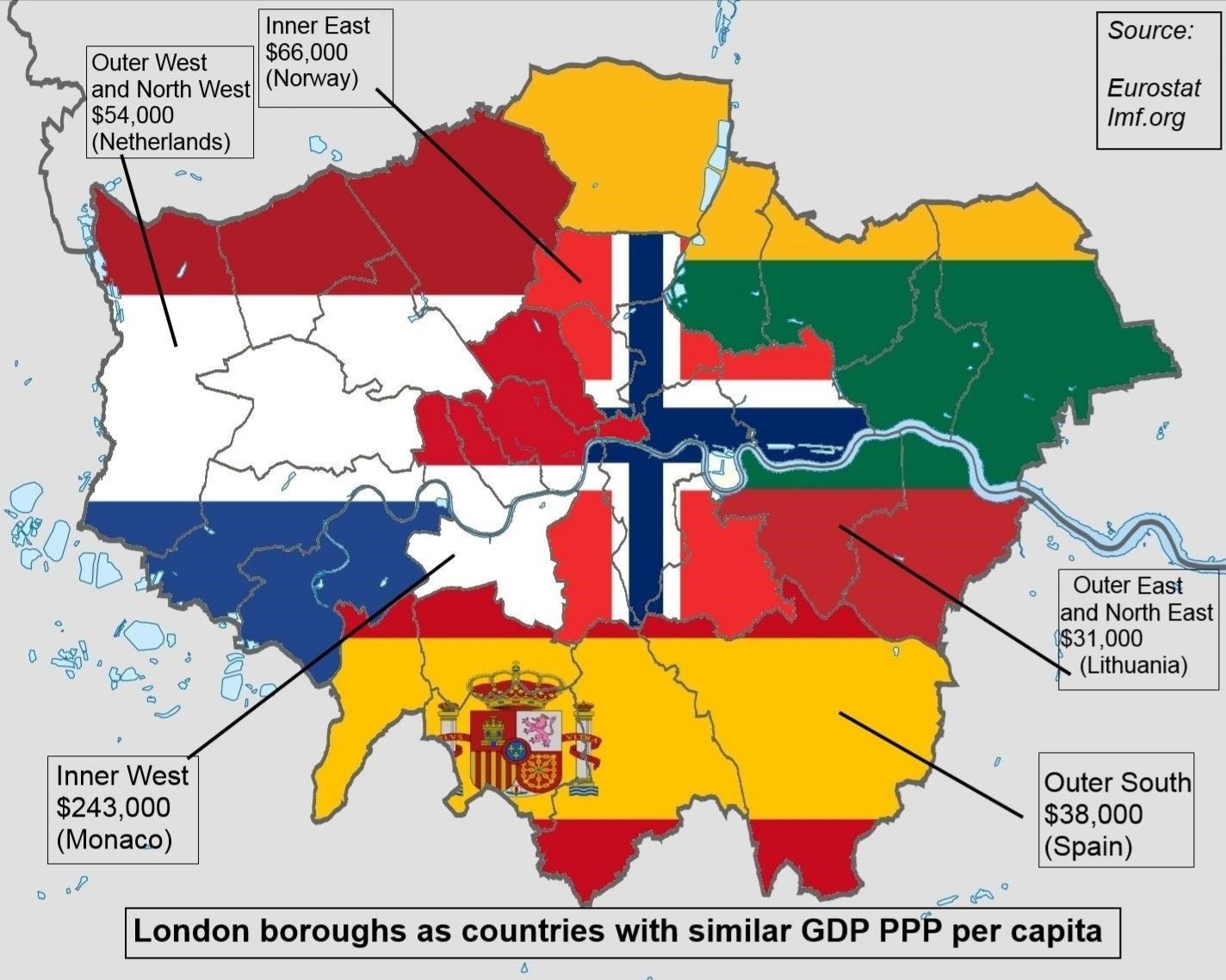 London boroughs (and the City of London) grouped so as to ascribe to "residents" for more than 6 months of each year an output which is the mean of that of countries shown by flag overlay (likely with the same Gross Domestic Product, per capita). See global "super rich"/"superrich" for more details on how alloting a single place of residence for such entrepeneurs and business owners, largely shaping such data, is difficult and problematic.